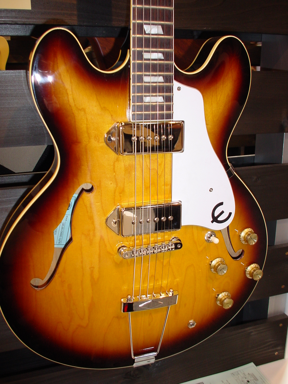 Epiphone Casino SB in Instrument Show(2003.10.25 Pacifico Yokohama, Japan) Author: Photo by CasinoKat